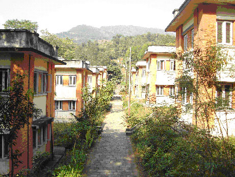 Lamjung Campus, Sundarbazaar